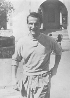 Andrea Fraschetti, Ferrari engineer. Lived 1928 to 1957. This should be in the 1950s.